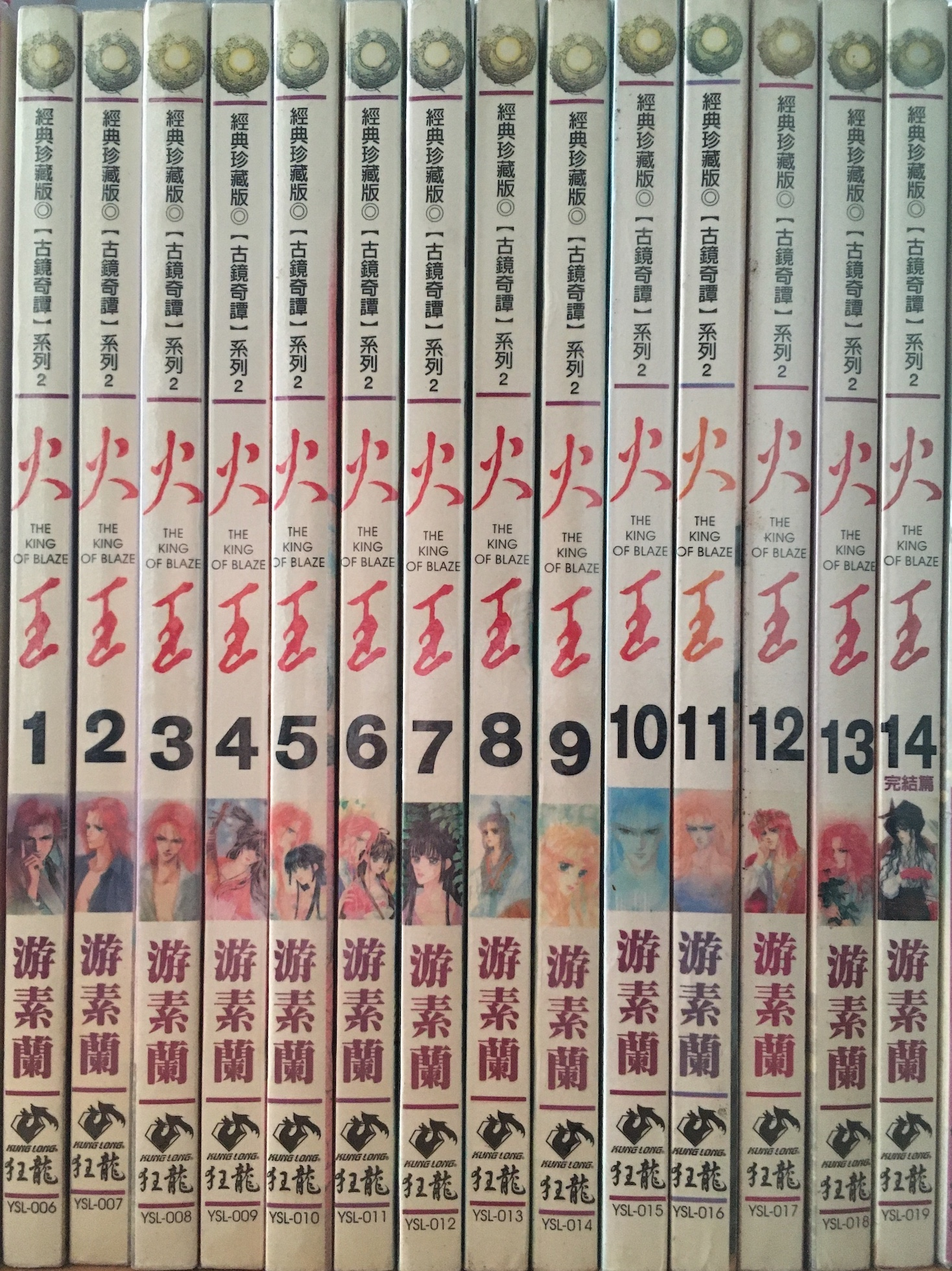 The King of Blaze, manhua (comic) created by the Taiwanese comic artist You Su-lan, 2nd installment of The Seven Mirrors’ Stories series. 14-volume new edition published by Kung-Long International Publishing Co.